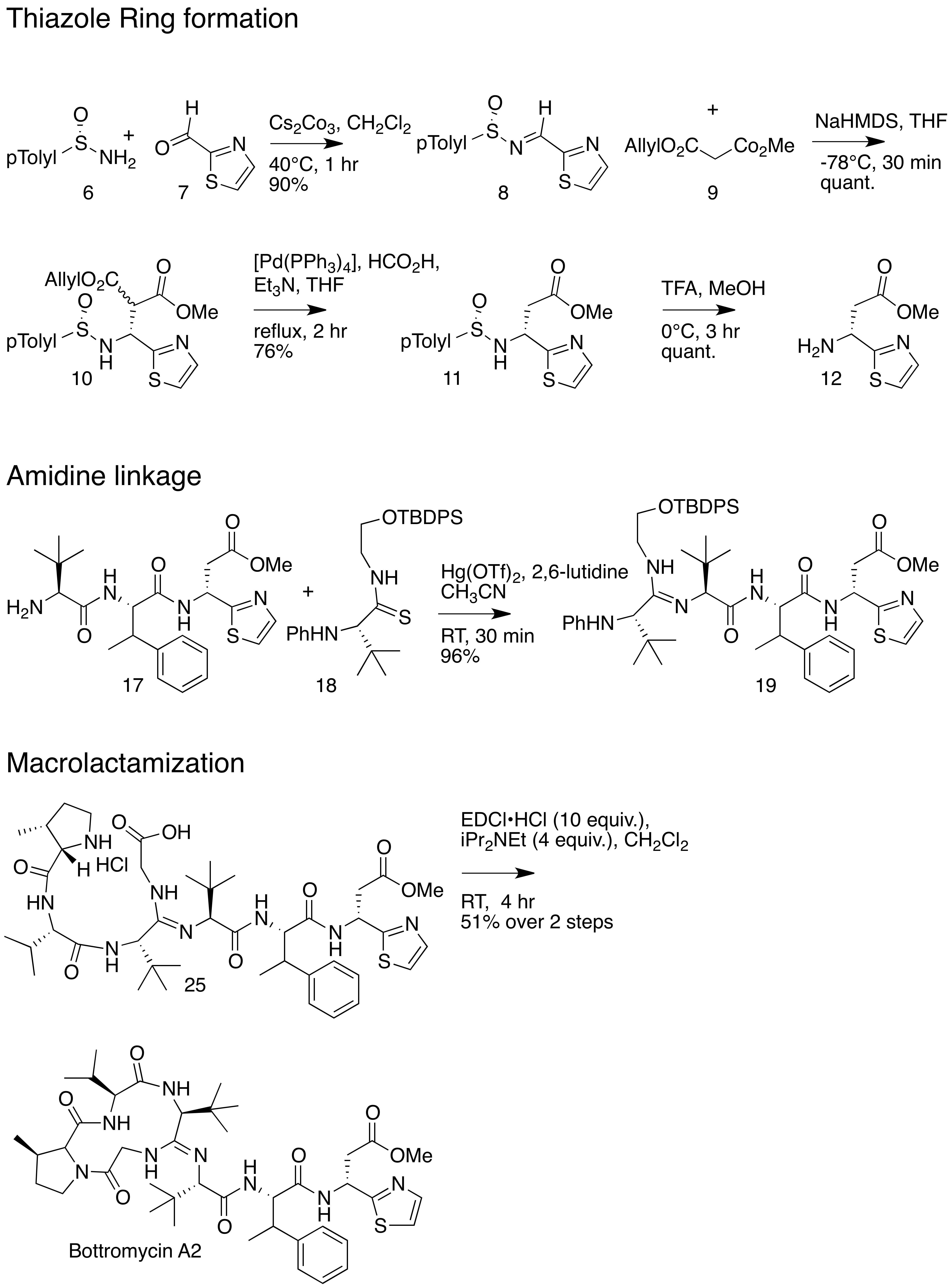 An illustration of the key steps in the total synthesis of bottromycin